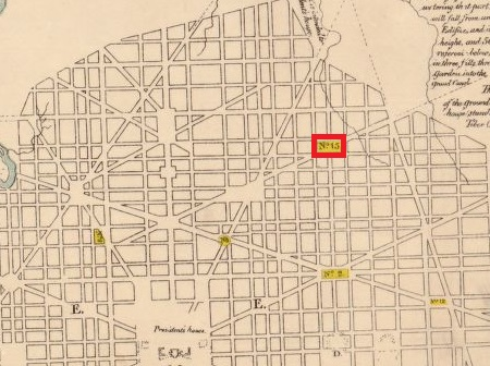 Detail of L'Enfant Plan for Washington, D.C. with focus on Square No. 15